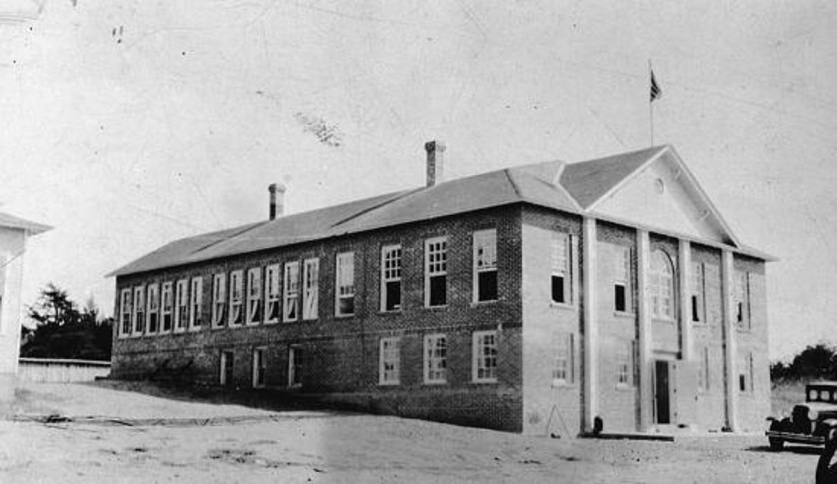 Front and left view of Stafford County Courthouse in 1929.